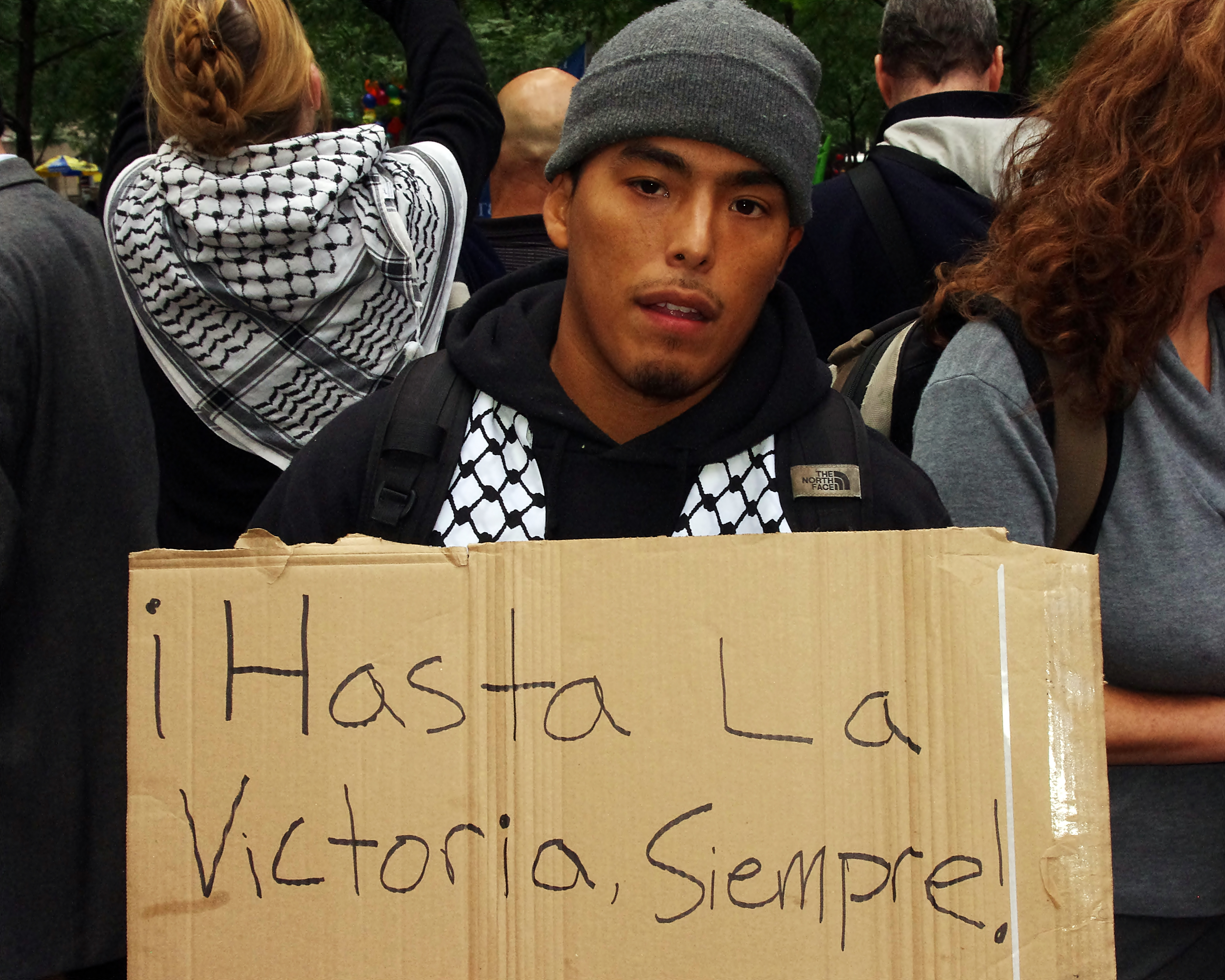 Day 16 of Occupy Wall Streetf - photos from Zuccotti Park, with palestinian scarf.